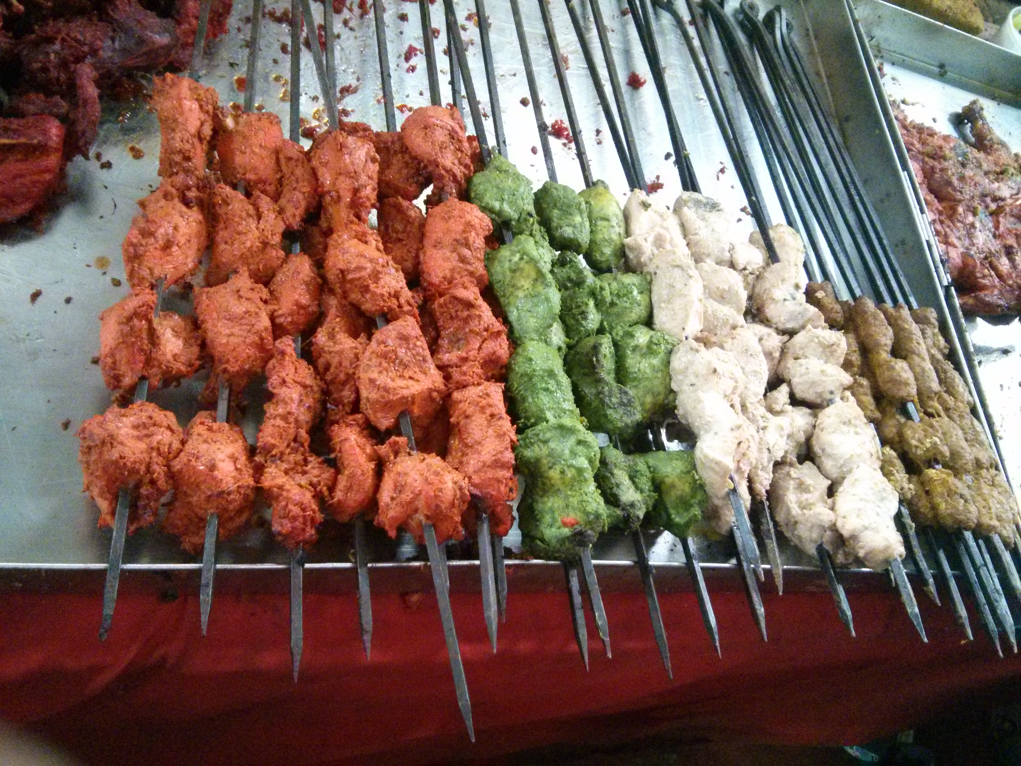 Name the color and you get it. Colorful kababs during Ramzan 2014 at Mosque Road, Bangalore